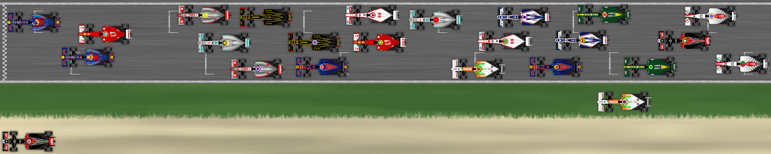 Race result of the 2011 Turkish Grand Prix in Istanbul